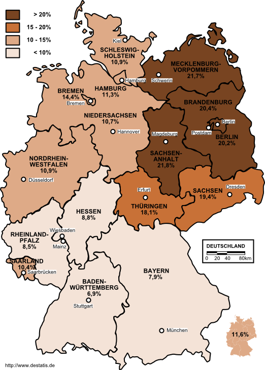 Unemployment rate in Germany in 2003 by states. Data ([1]), map base Image:Map germany.svg